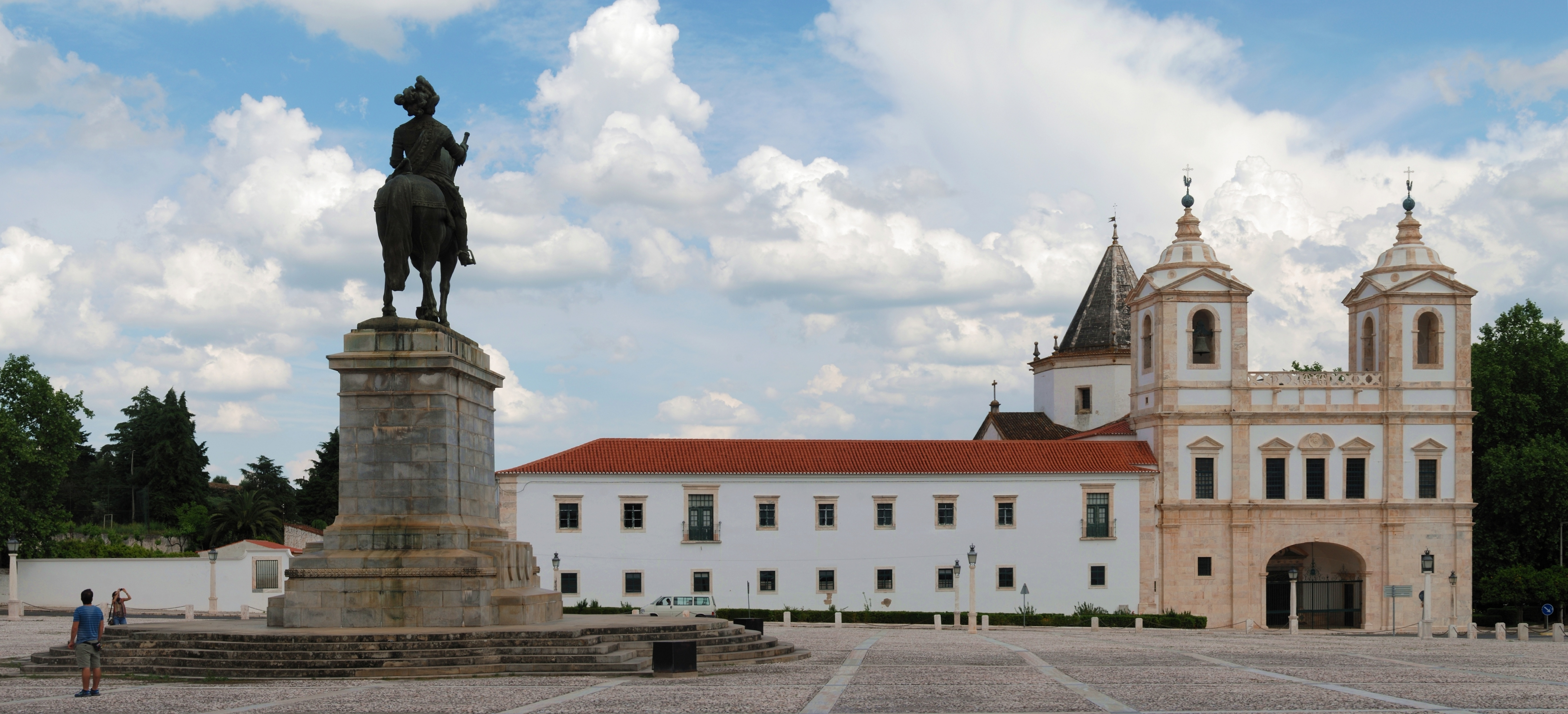 View of the Terreiro do Paço, Vila Viçosa, Portugal, with the church and monastery of Saint Augustin, and the statue of King D. João IV